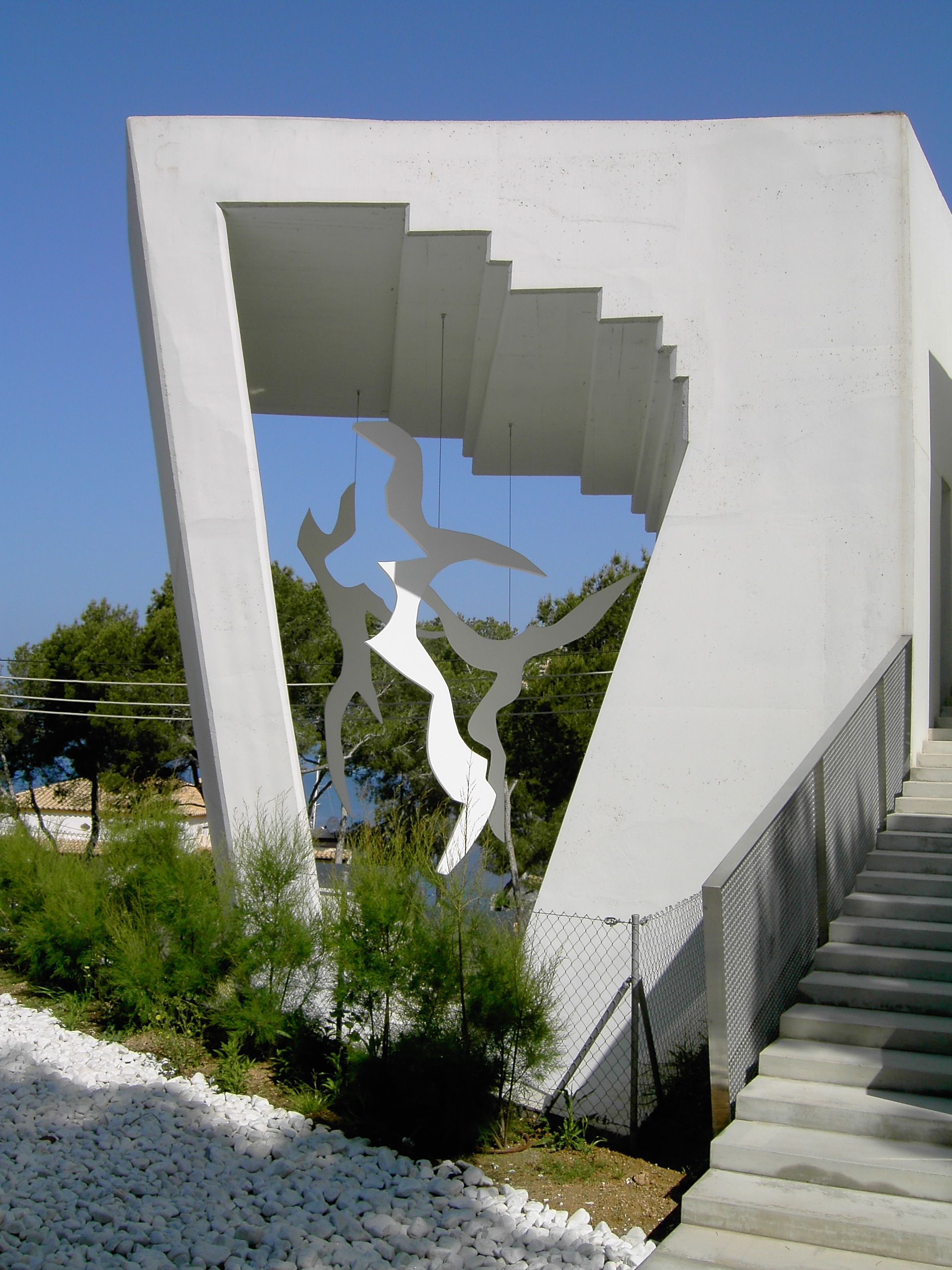 Three sculptures, set in motion by sea breezes, in the jagged open gallery, part of Studio Weil